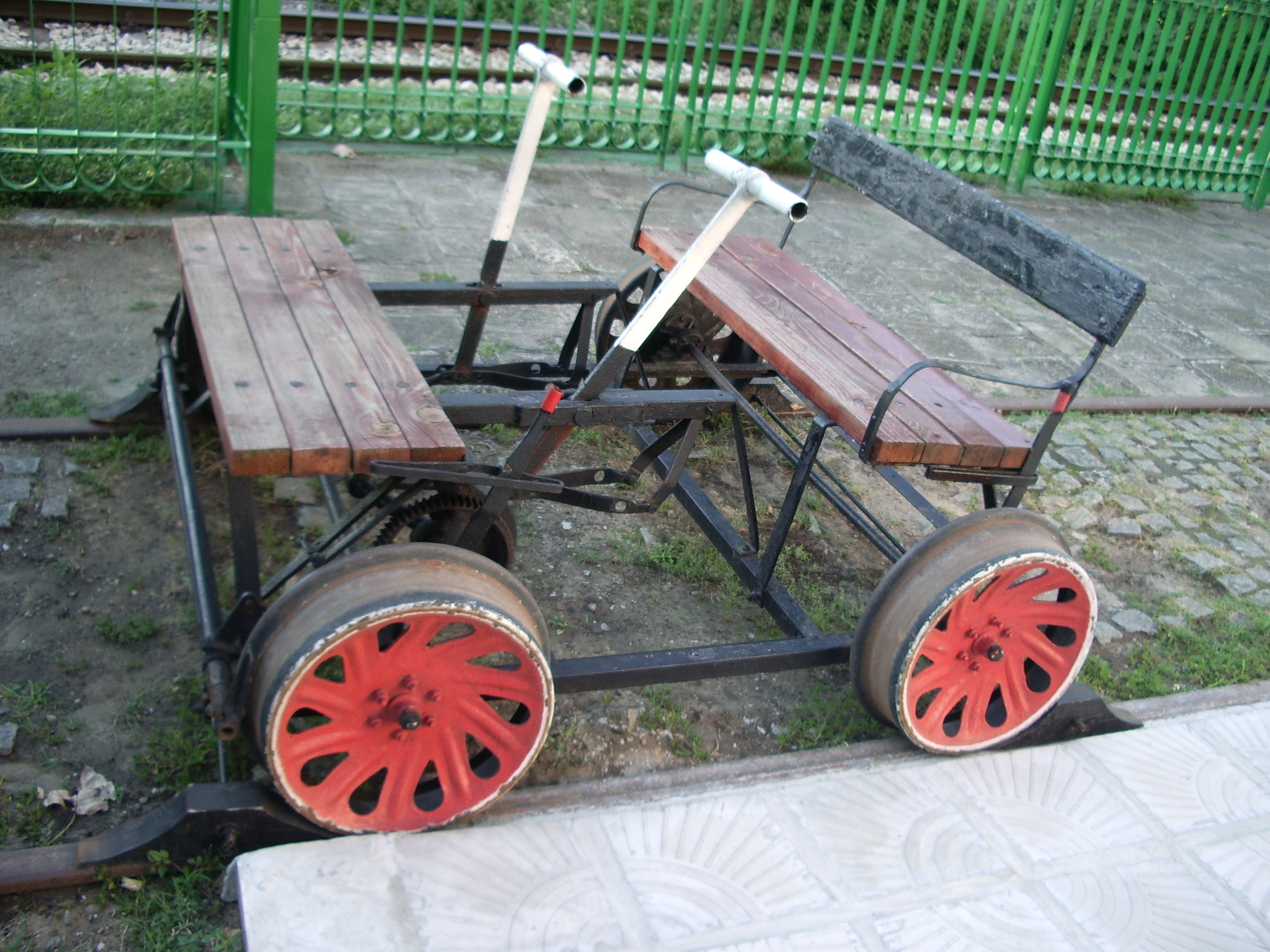 A shot from the National Transport Museum in Rousse, Bulgaria.